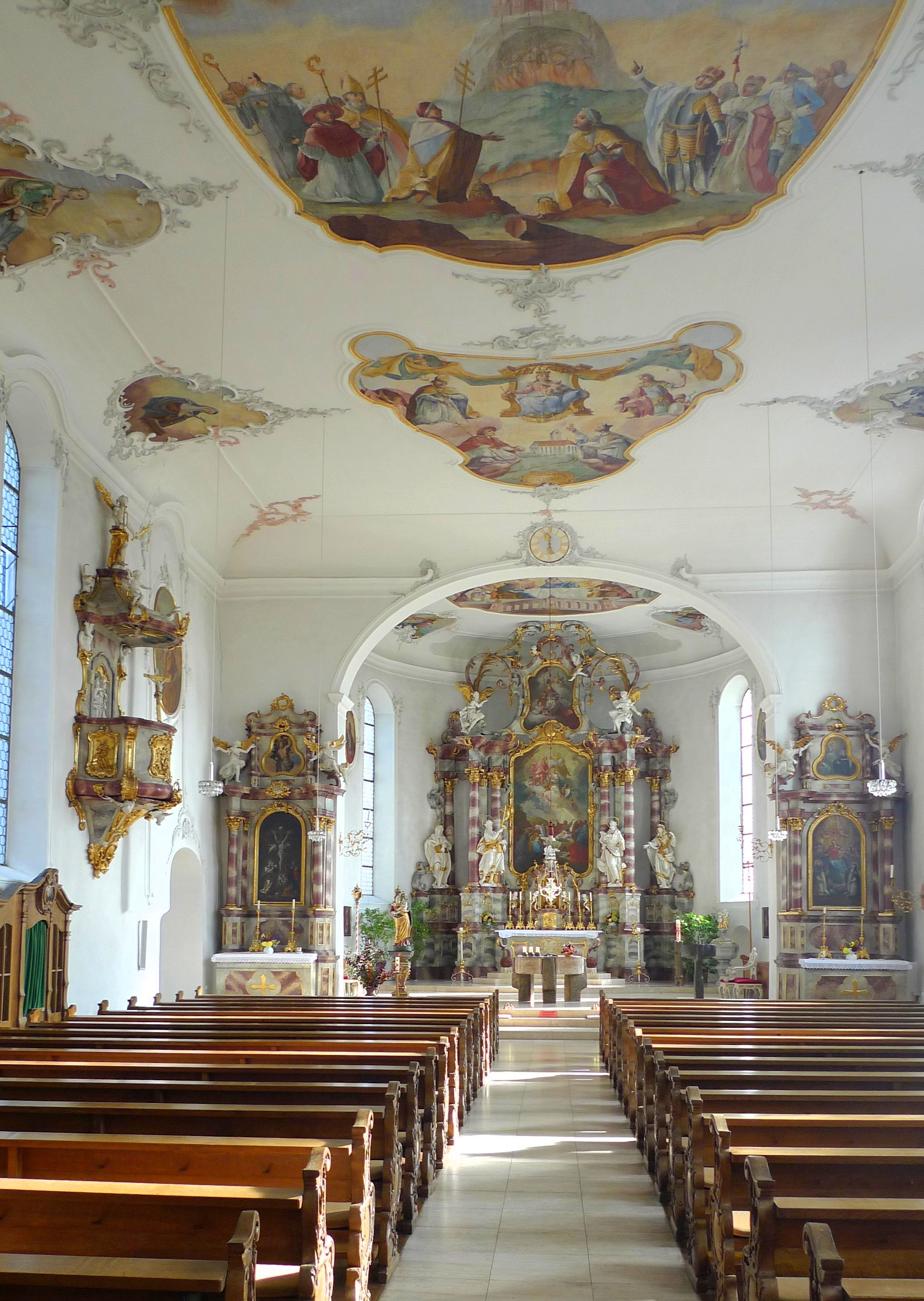 Interior of St. Martin in Eglofs/Allgäu